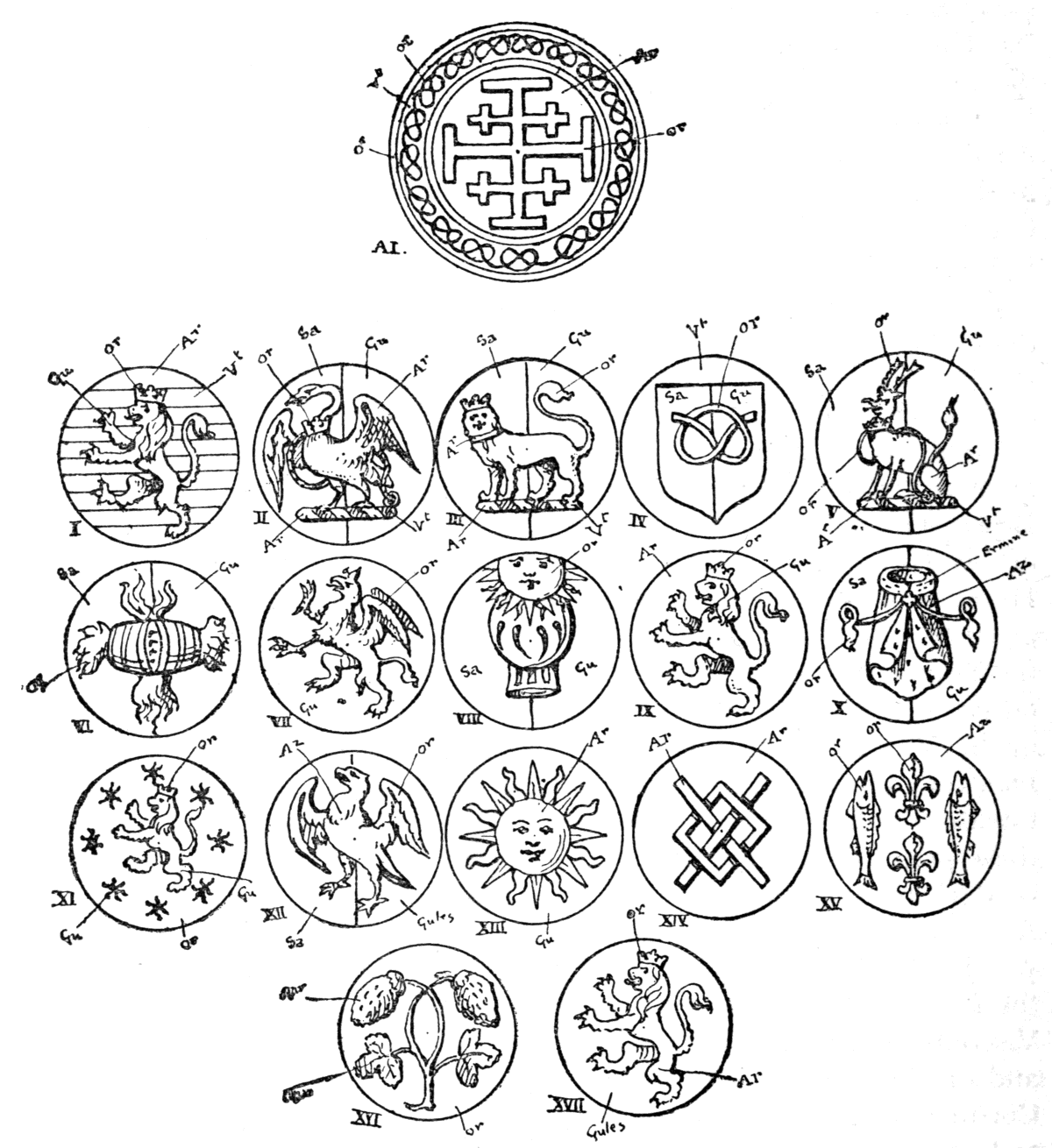 Fig. 674.—The Stafford Badges as exemplified in 1720 to William Stafford Howard, Earl of Stafford.